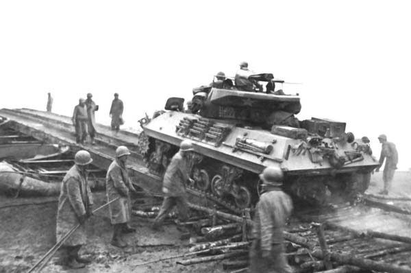 A M10 Wolverine tank destroyer of the US Army, presumably belonging to the 773rd Tank Destroyer Battalion, crossing the Saar River outside Dillingen on a treadway ferry in early December 1944.